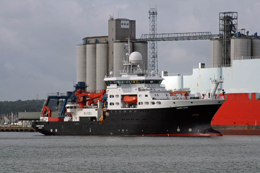 RRS James Cook returning to its base at the National Oceanography Centre, Southampton IMO: 9338242 Information about the vessel may be found at IMO 9338242.A ship can change name and flag state through time, but the IMO number remains the same through the hull's entire lifetime. As a result, it can be useful to identify a ship by using the IMO number.